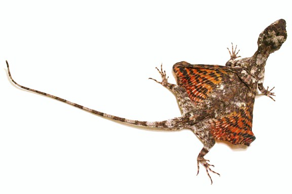 Photo of Draco volans or Flying Dragon, a gliding agamid that lives in the rainforests of Asia and the East Indies.